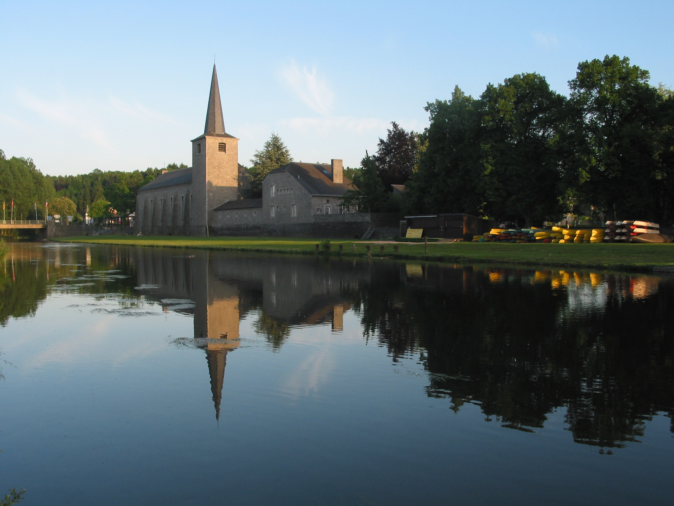 Hotton (Belgium), view on the Ourthe river and the church of the borough.